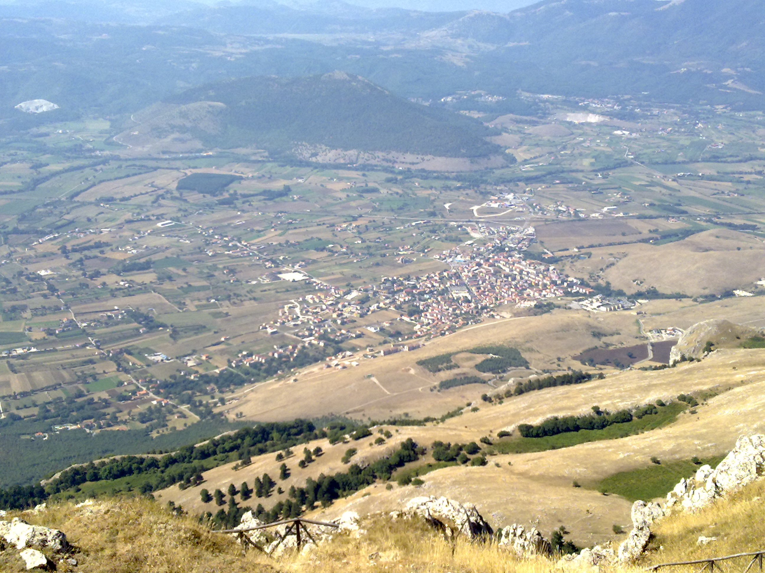 View of Villa d'Agri, fraction of Marsicovetere.